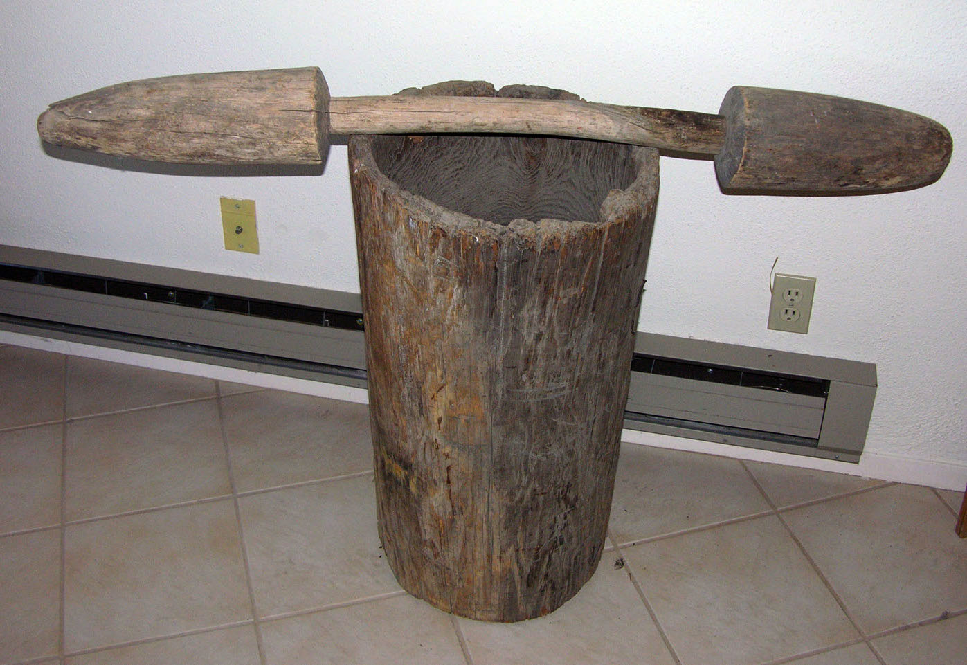 Wooden mortar and pestle found in the rice loft on Briars Plantation, John's Island (Charleston County), South Carolina. From the personal collection of the (anonymous) owner. It is believed to have been used in husking and/or polishing rice which was grown on the plantation. The age is unknown. Photograph by the owner